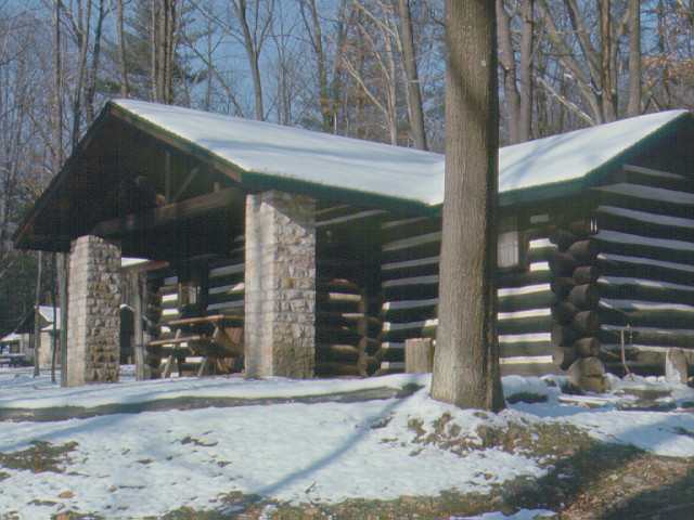 Cabin at Clear Creek State Park in Jefferson County, Pennsylvania, United States